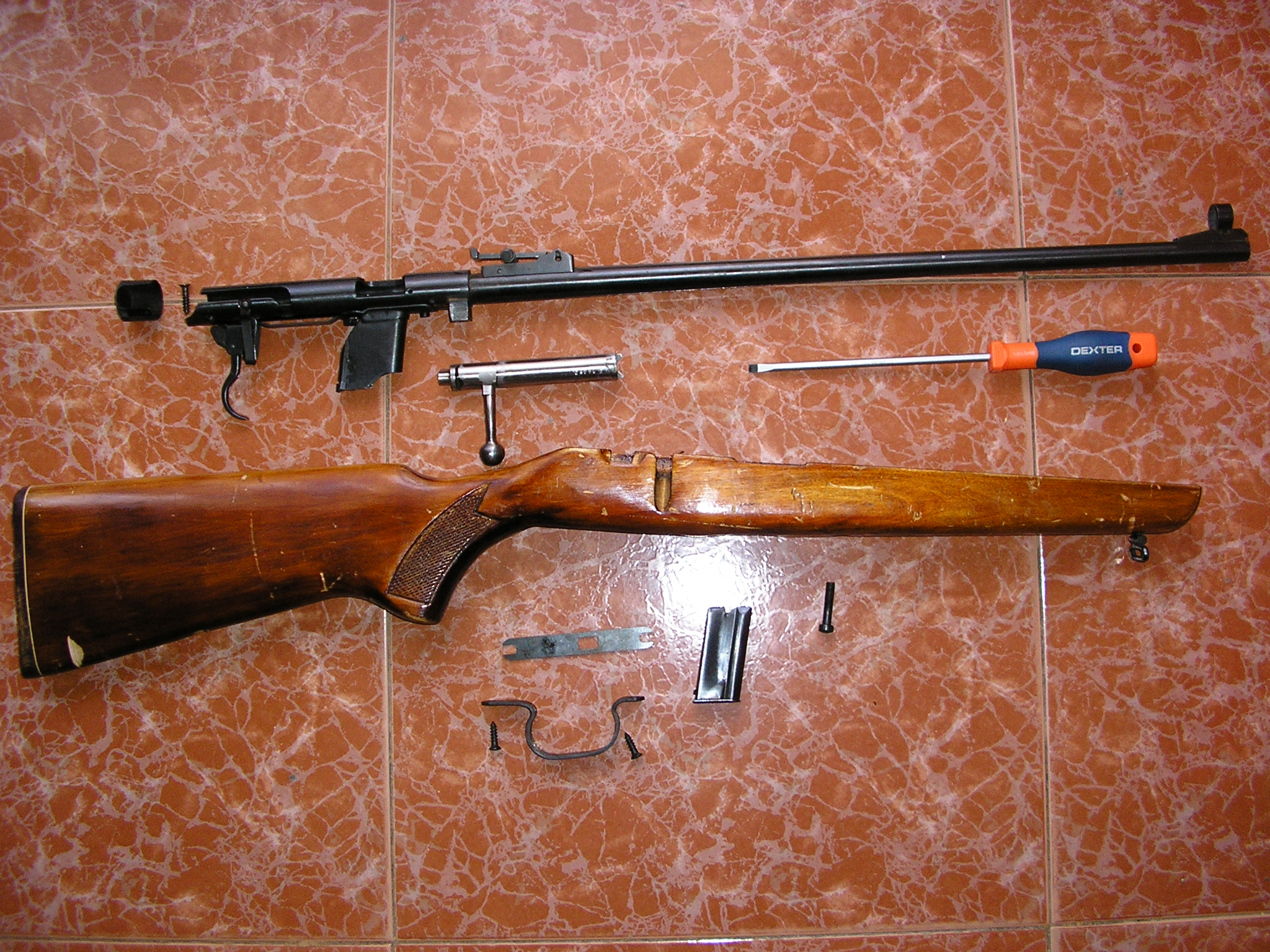 Disassembly of the TOZ-17, a Soviet small-caliber rifle.